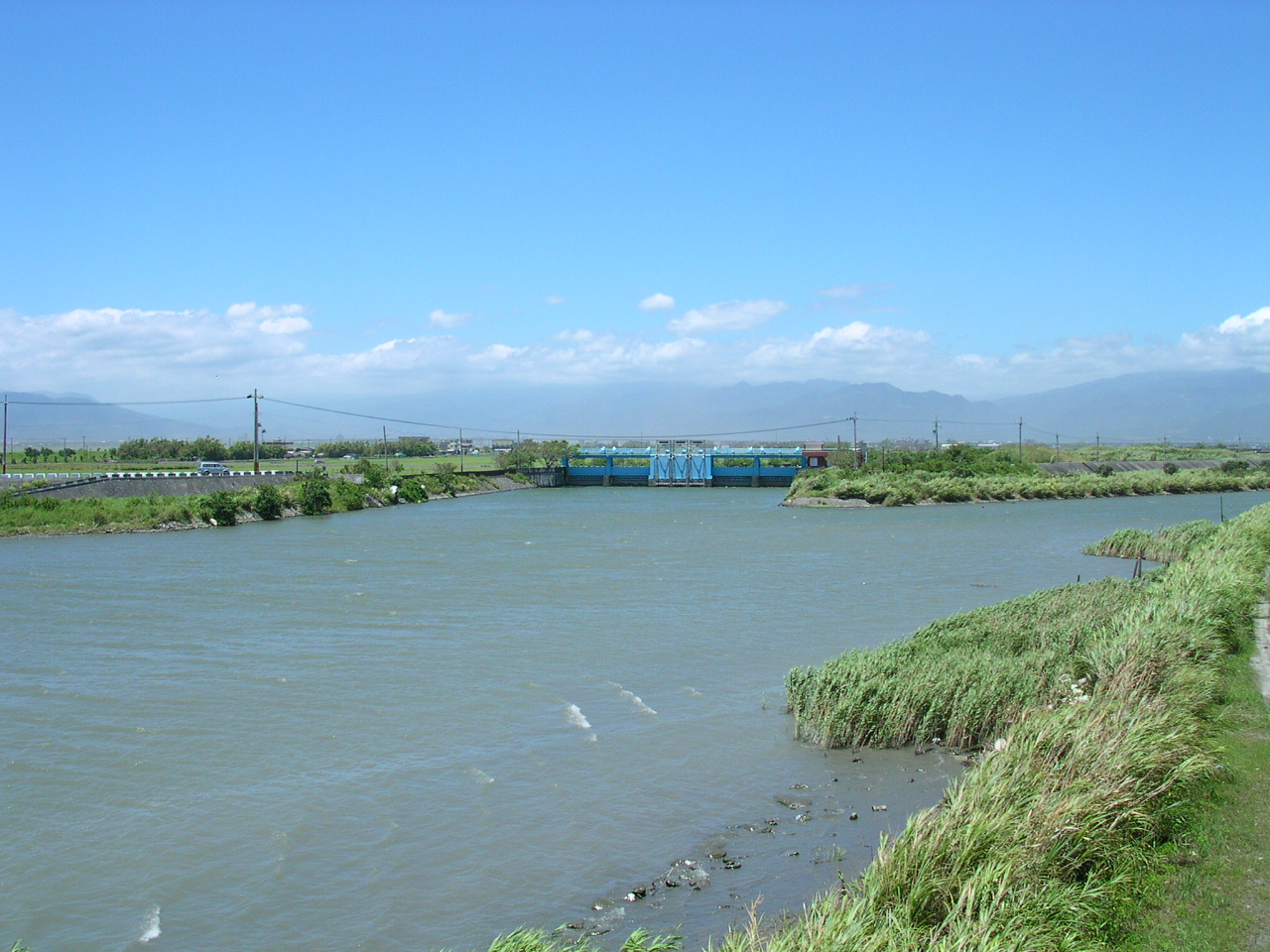 this photo taken by vegafish